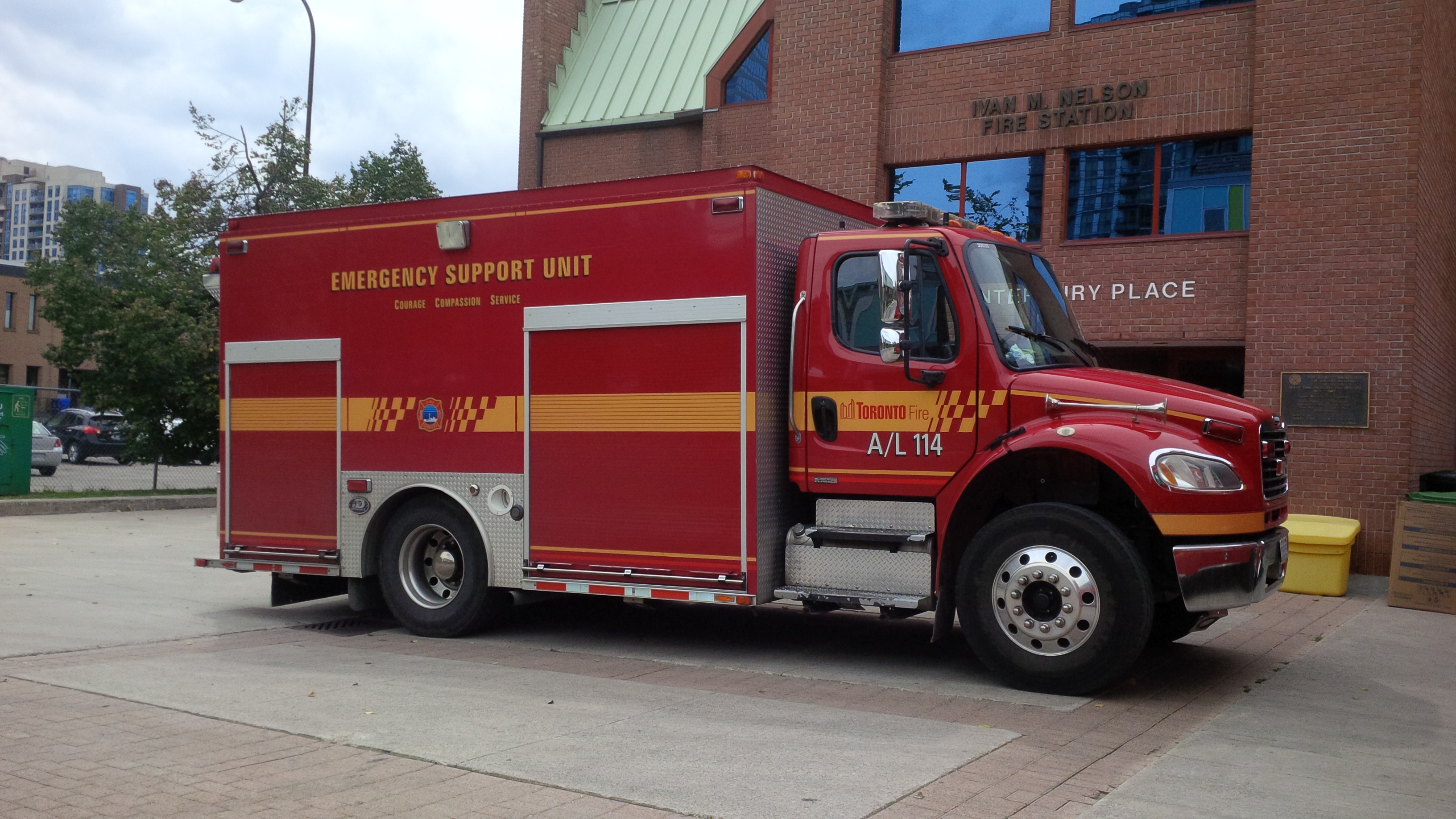 TFS Air/Light Emergency Support Unit (A/L 114)